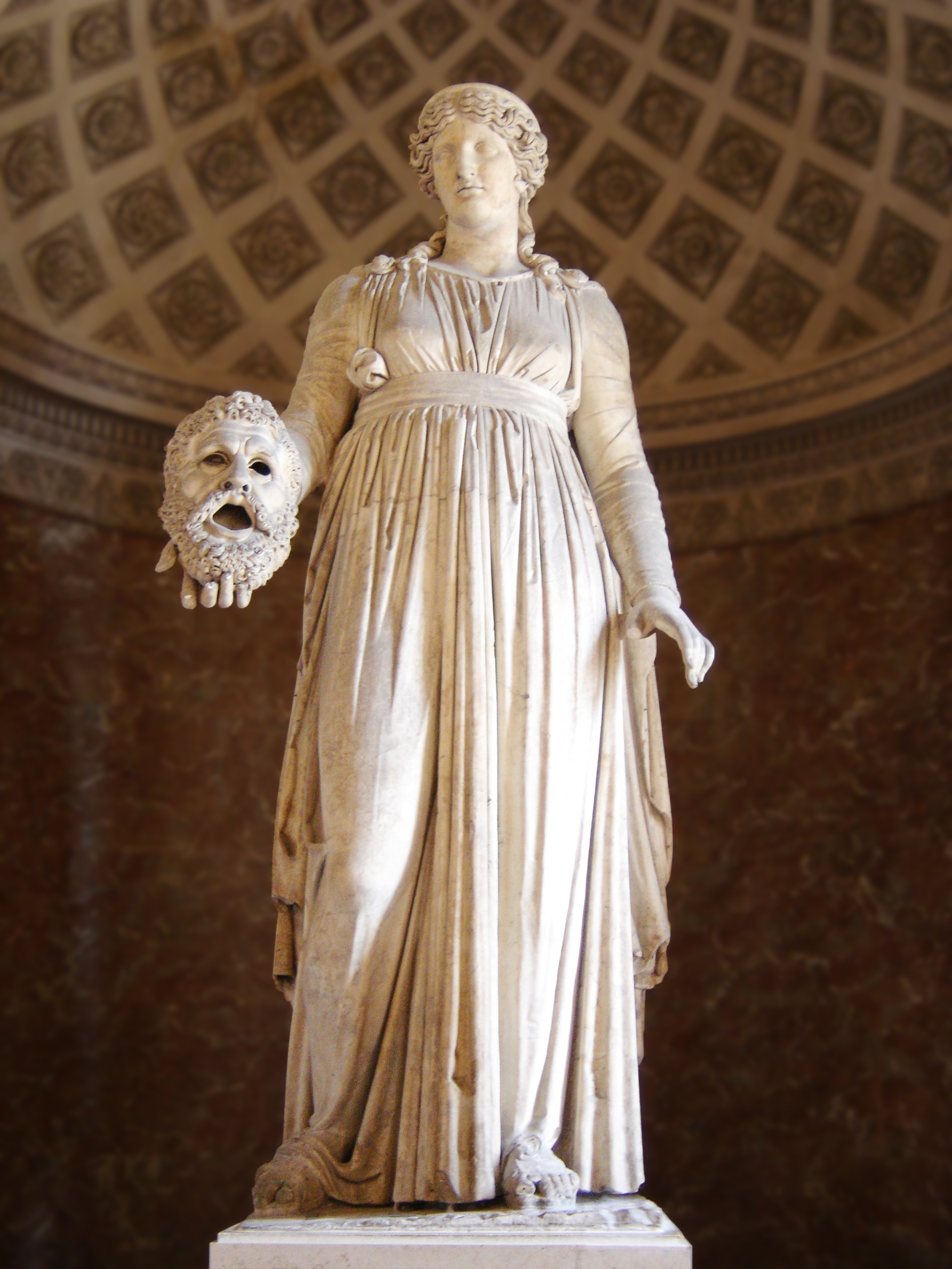 Colossal female statue, restored as the muse Melpomene by the addition of a modern mask. Marble, Roman artwork, ca. 50 BC. Might have been part of the Theatre of Pompey in Rome.